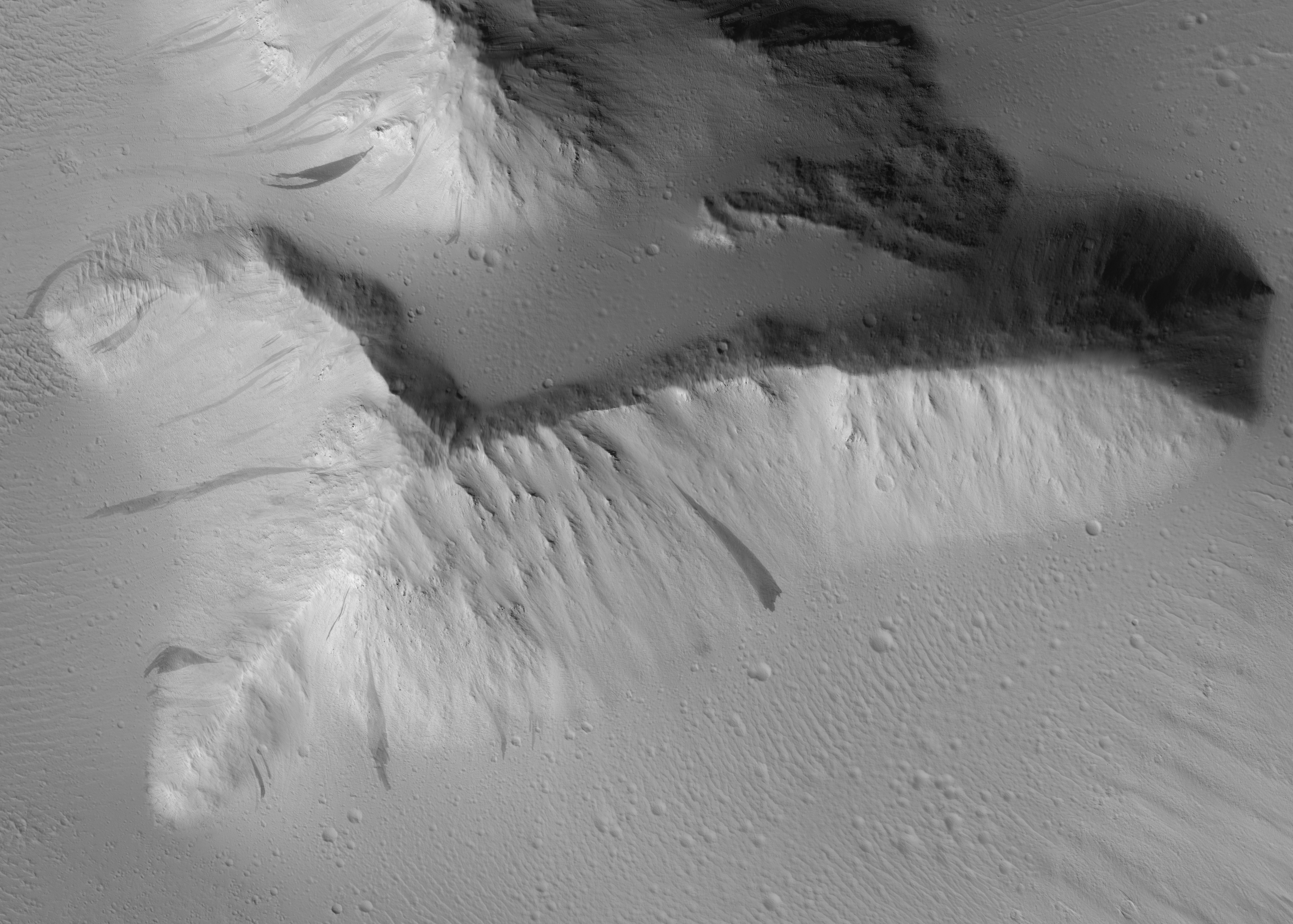 A ridge in the Sulci Gordii formation on Mars photographed by Mars Reconnaissance Orbiter.